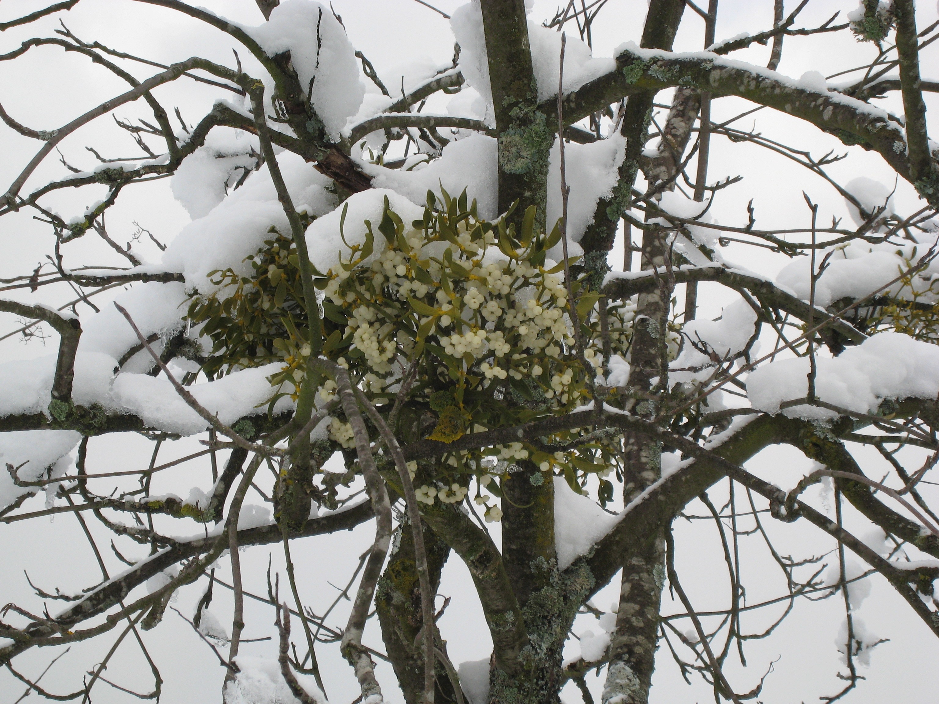 European Mistletoe (Viscum album) in Annecy-le-Vieux, France